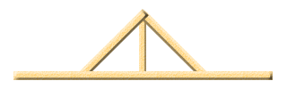 I made this image myself. Zab 08:21, 25 May 2007 (UTC)